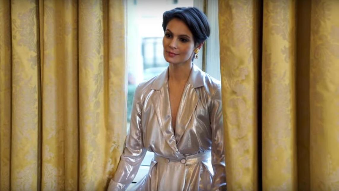 Igone de Jongh. In het nieuwe nummer van &C, ‘Vrienden voor het leven (of voor even)’, bespreken we de rol die vriendschap in je leven speelt. Door de jaren heen verlies je meestal meer vrienden dan erbij komen. En dat is heel normaal, zeggen experts. Een vriendschap onderhouden kost nu eenmaal veel tijd. In het grote interview vertellen balletdanseres Igone Römer-de Jongh en Chantal Janzen over hun ‘verkering.’ Ook al kennen elkaar pas zes jaar, het voelt als honderd en dat zie je aan alles.